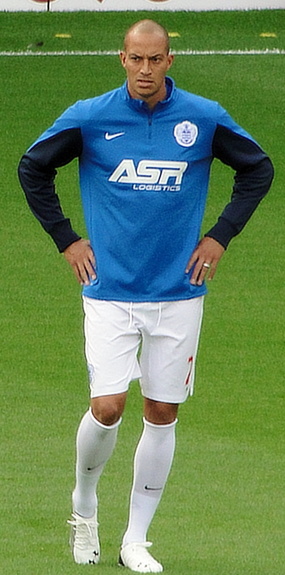 Queens Park Rangers player Bobby Zamora warming up before their Premier League defeat to West Ham United at the Boleyn Ground, London, October 2014